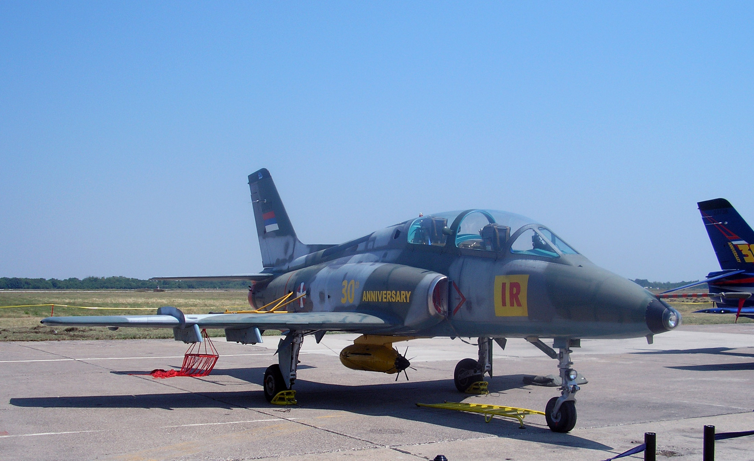 G-4T Super Galeb target puller No.23601 of 252. Mixed-Aviation Squadron, 204th Air Base of Serbian Air Force, on display at Batajnica airbase during the Saint Elijah, the Aviation Day in Serbia. The aircraft is decorated with "30th ANNIVERSARY" words as celebrate of 30 years of Super Galebs first made flight.